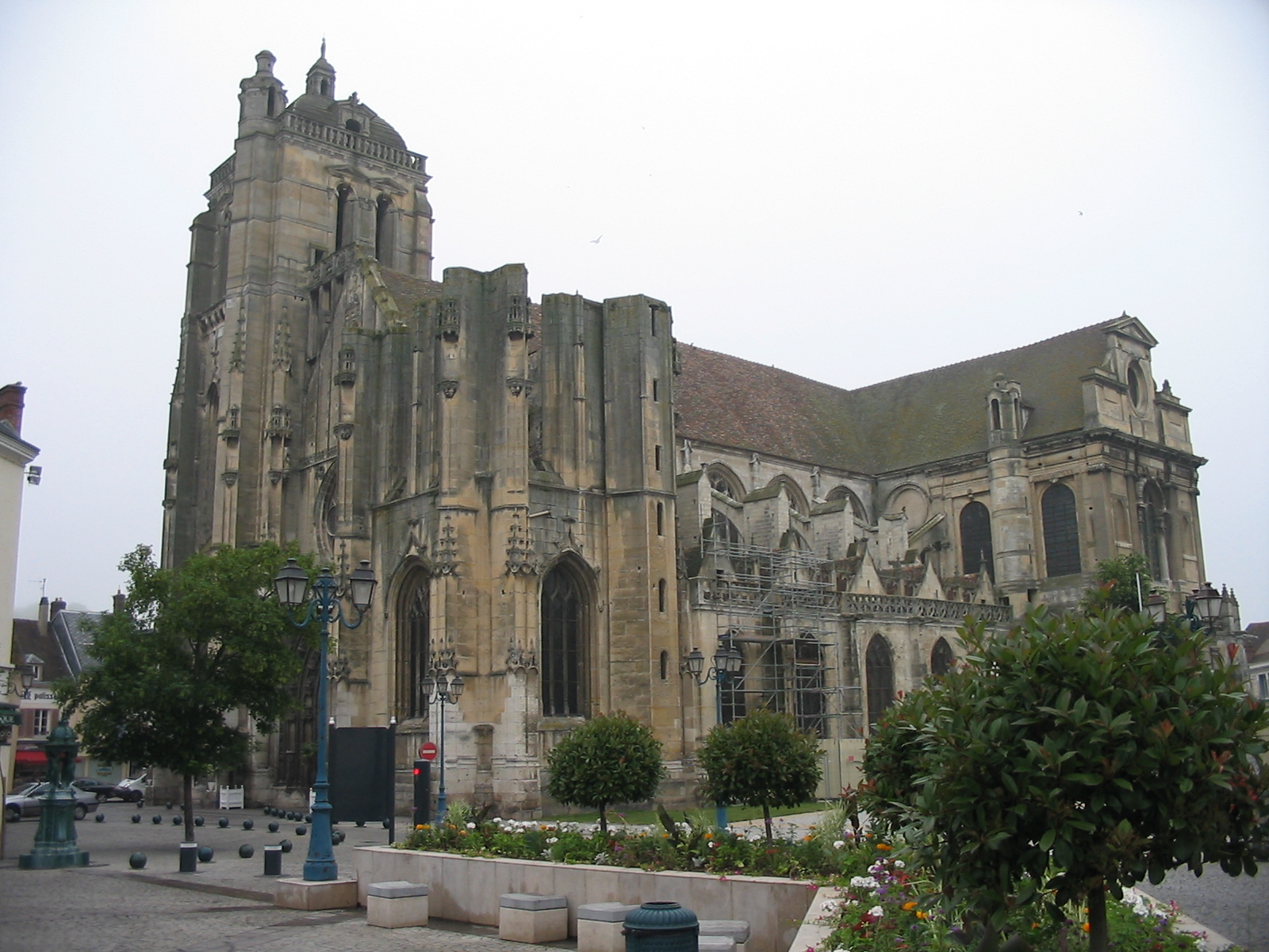 Sait-Pierre Church at Dreux